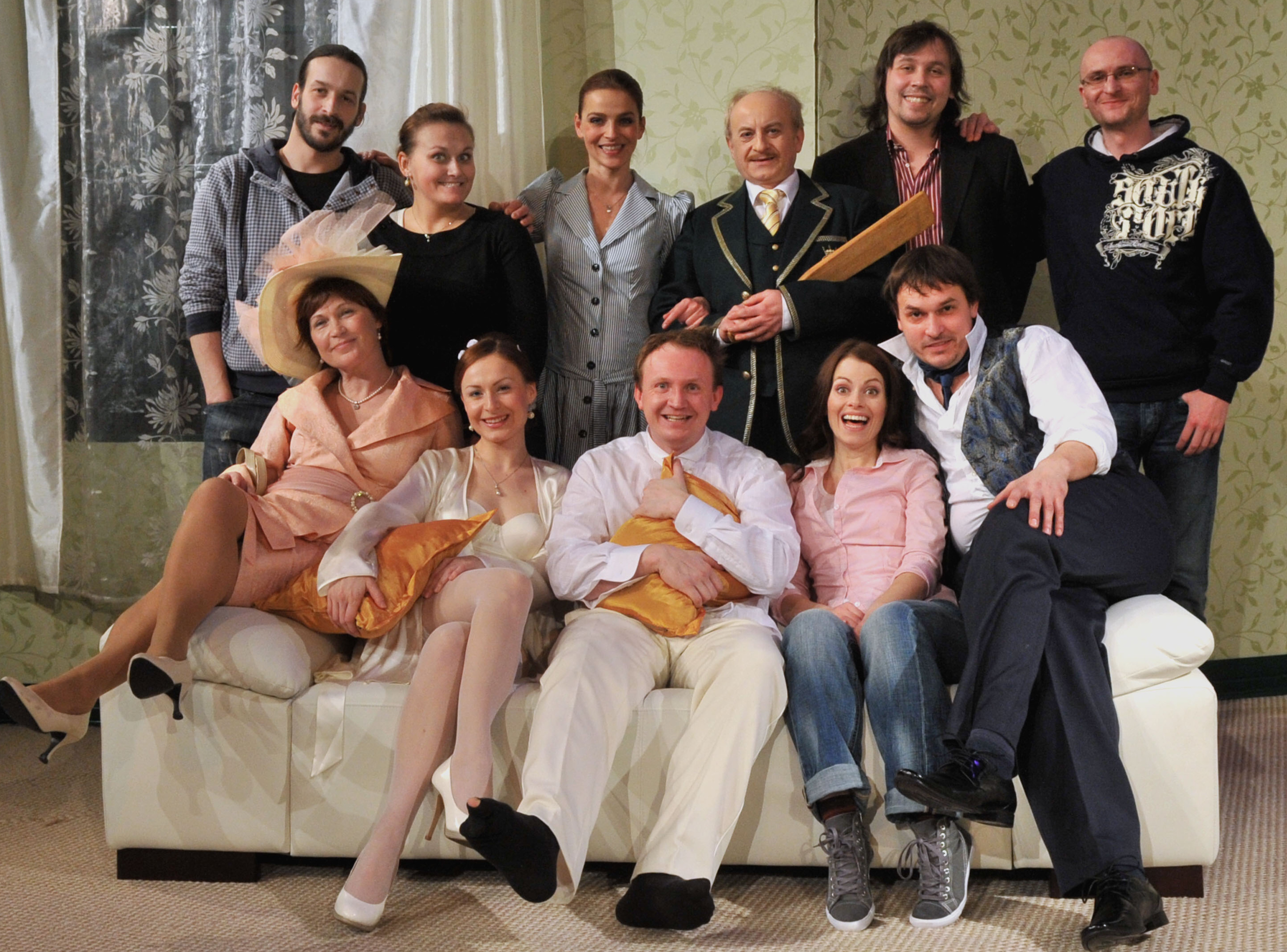 The theatre performance Dokonalá svatba (sitting from the left: Irena Konvalinová, Lenka Janíková, Milan Němec, Hana Holišová, Petr Štěpán;; standing from the left: Stano Slovák, Klára Latzková, Lucie Zedníčková, Zdeněk Bureš, Jan Šotkovský, David Kropáč)